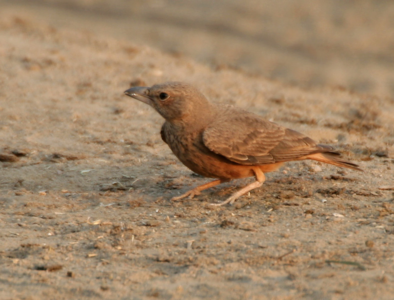 Rufous-tailed Lark Ammomanes phoenicurus in Kawal Wildlife Sanctuary, Andhra Pradesh, India.